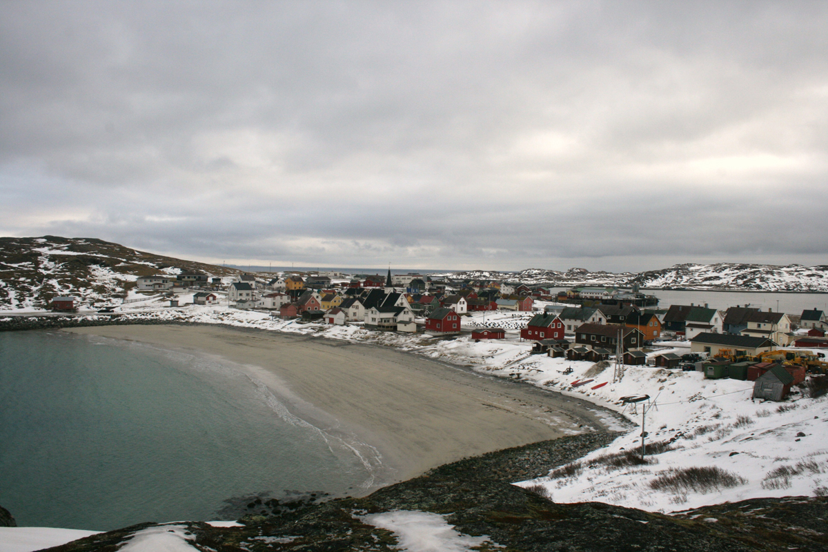 Fishing village in Finnmark, Norway